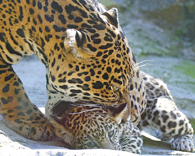 A jaguar (Panthera onca) about to pick up her cub by the neck at the Stone Zoo.